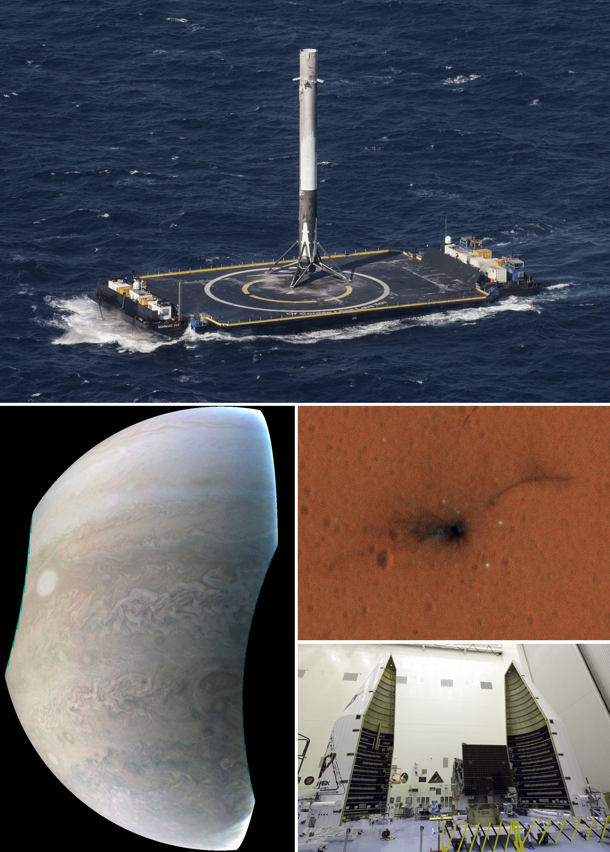 Collage of images made for the infobox of the 2016 in spaceflight article.